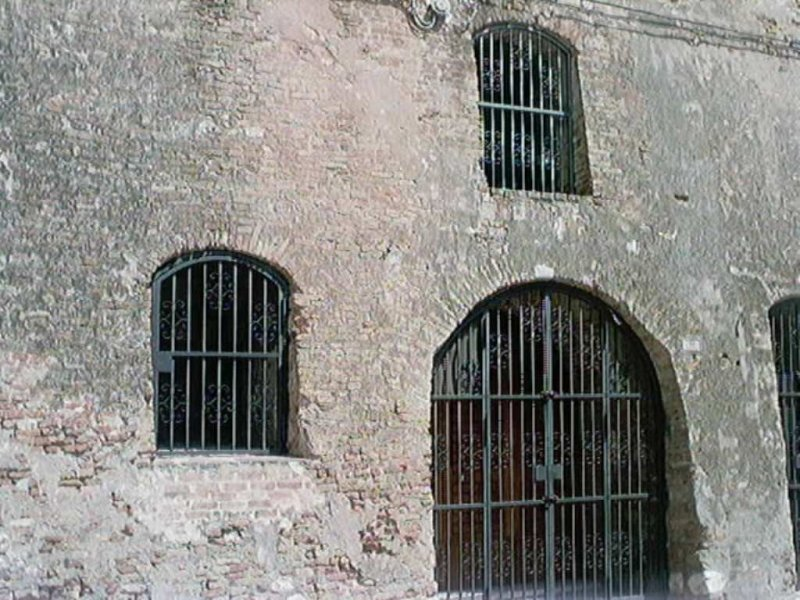 Baronial Palace - it is well-know as The Castel or The Count Palace